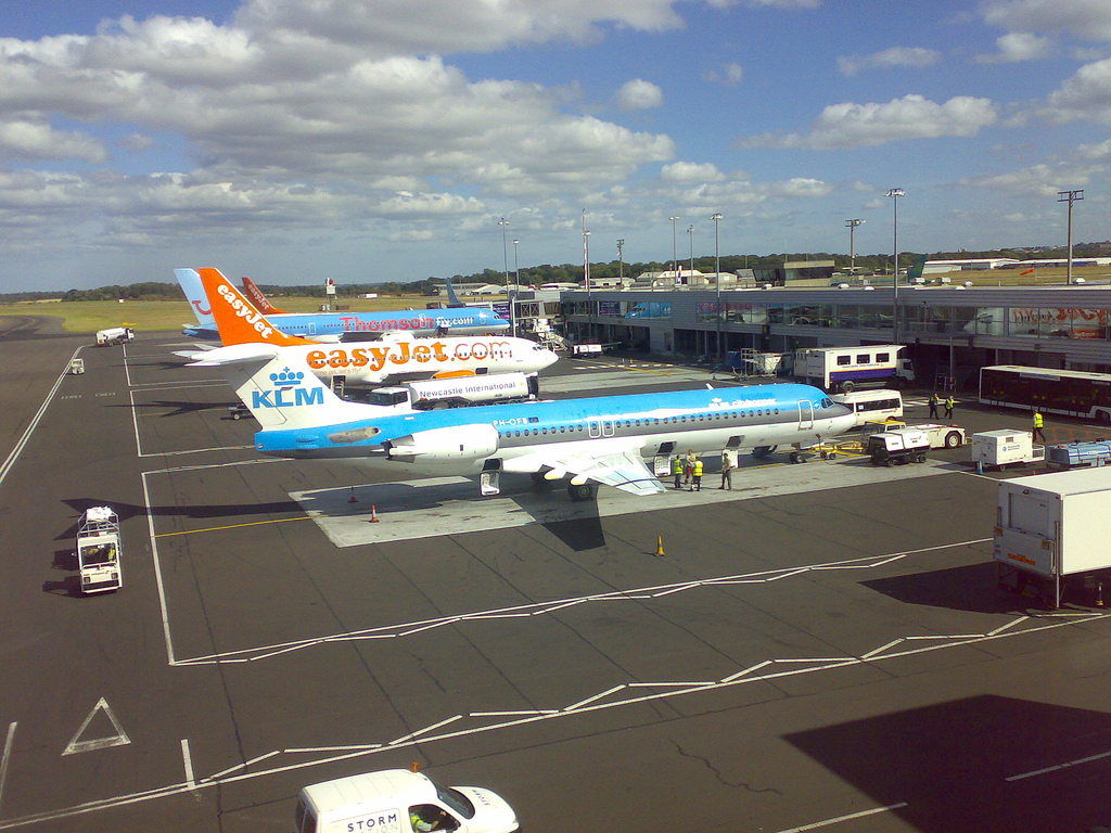 KLM, Easyjet and Thomsonfly aircraft at Newcastle Airport. Taken on the 6th of August 2007.